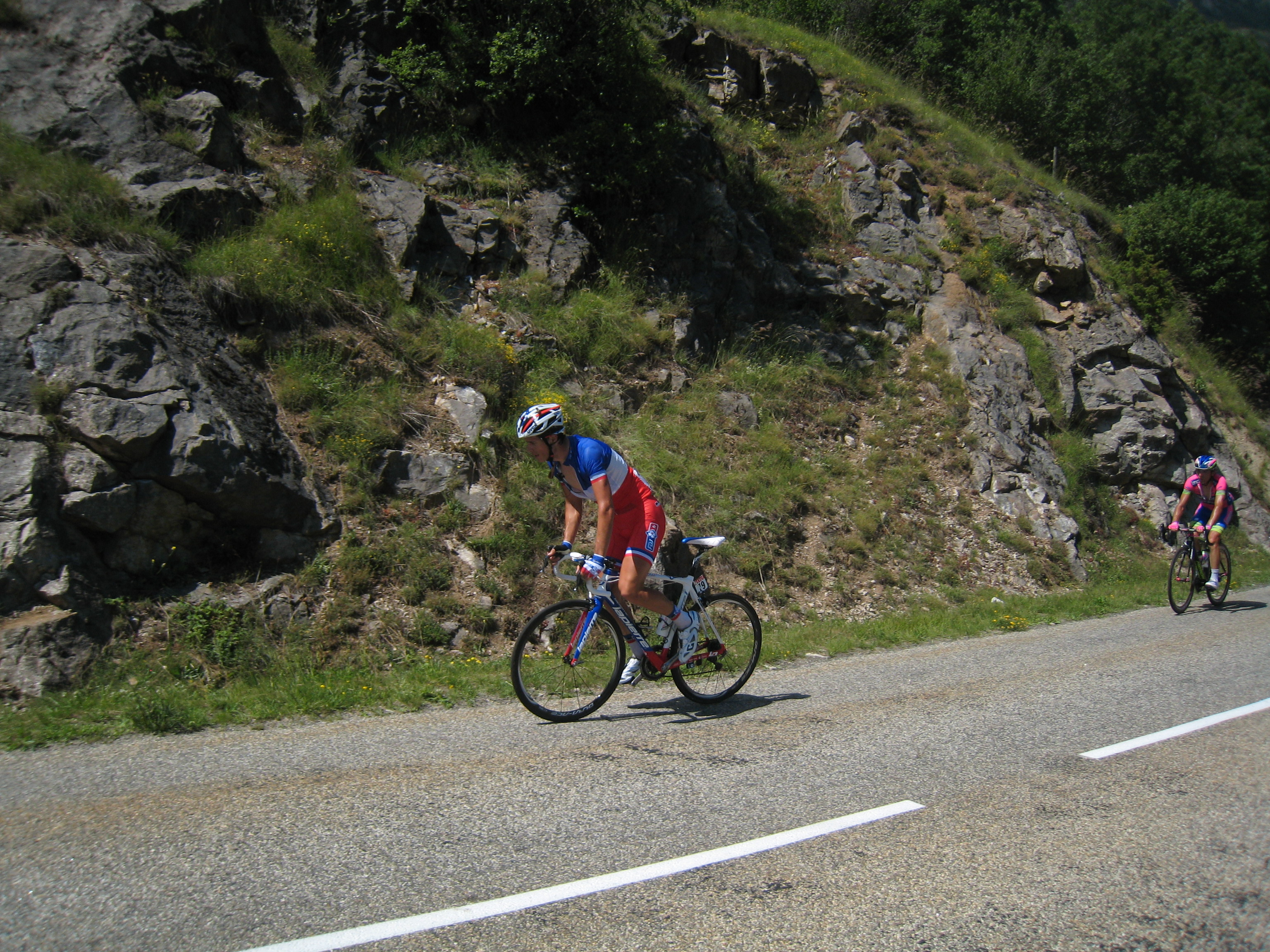 Arthur Vichot on the Port de Pailhères in the 2013 Tour de France